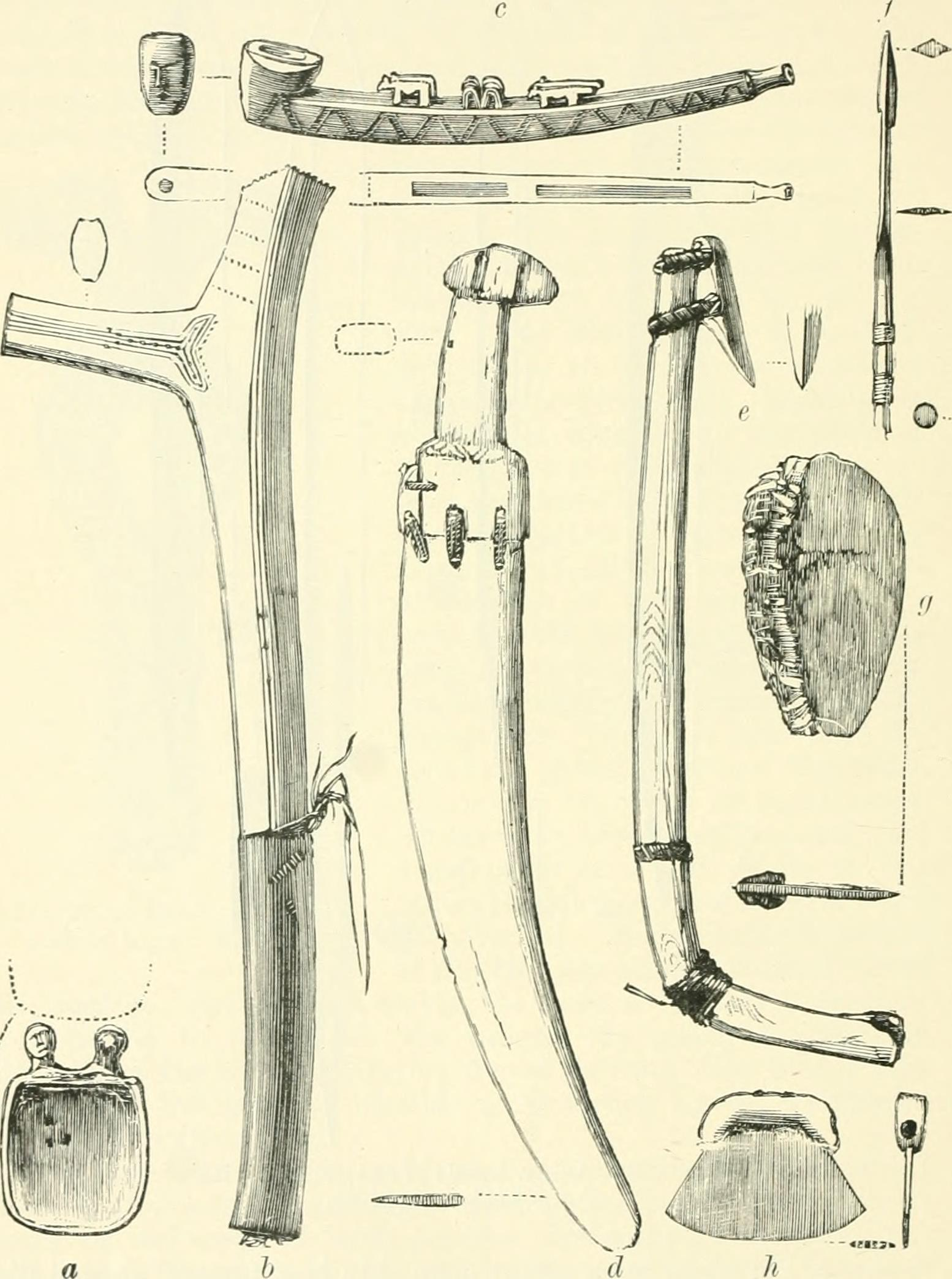 Title: Handbook to the ethnographical collections Year: 1910 (1910s) Authors: British Museum. Dept. of British and Mediaeval Antiquities and Ethnography Joyce, Thomas Athol, 1878-1942 Dalton, O. M. (Ormonde Maddock), 1866-1945 Subjects: Publisher: (London) : Printed by order of the Trustees Text Appearing Before Image: Fig. 228.—Arrow-heads of antlei-, one withstone bhule. Eskimo. of canoo. Women use a roomy open skin boat (iwtial) shai)ed likeu trougli, and capable of holding aljout twenty j)eople. With theumia/c single-bladed paddles are emi)loyed, anil a low lug-sail madeof strii)S of walrus-intestine sewn together is sometimes hoisted. Fig. 229.—Canning on ivory ^depicting a wliale-liuiit. Eskimo. Text Appearing After Image: Fig. 230.—Objects from the Eskimo, a. Ivory lamp-feeder, h. Antlerclub: c. Tobacco-pipe of ivory, d. Snow-knife of bone. e. Gaff for salmon./. Arrow, g. Slate hide-scraper, h. Iron hide-scraper. NORTH AMEKICA 253 On land, the Eskimo travel on snow shoes or in wooden sledgesof various forms the runners of which are usually covered withl^lates of bone. They are drawn by teams of native dogs harnessedwith light seal-hide traces, The Eskimo are possessed of great mechanical and considerableartistic skill. Before iron was known to them they made flintspear and arrow-heads, flaking them not by percussion, but bypressure applied by a horn implement. Their carving is doneby means of knives with curved blades, and holes are drilled bya bow-drill, the bow of which is usually made of bone or walrus-ivory, while the shaft is held steady not by the hands but by theteeth, between which a wooden mouthpiece is held (see fig. 7, e).On these bow-drills and other utensils hunting and other scenes areo